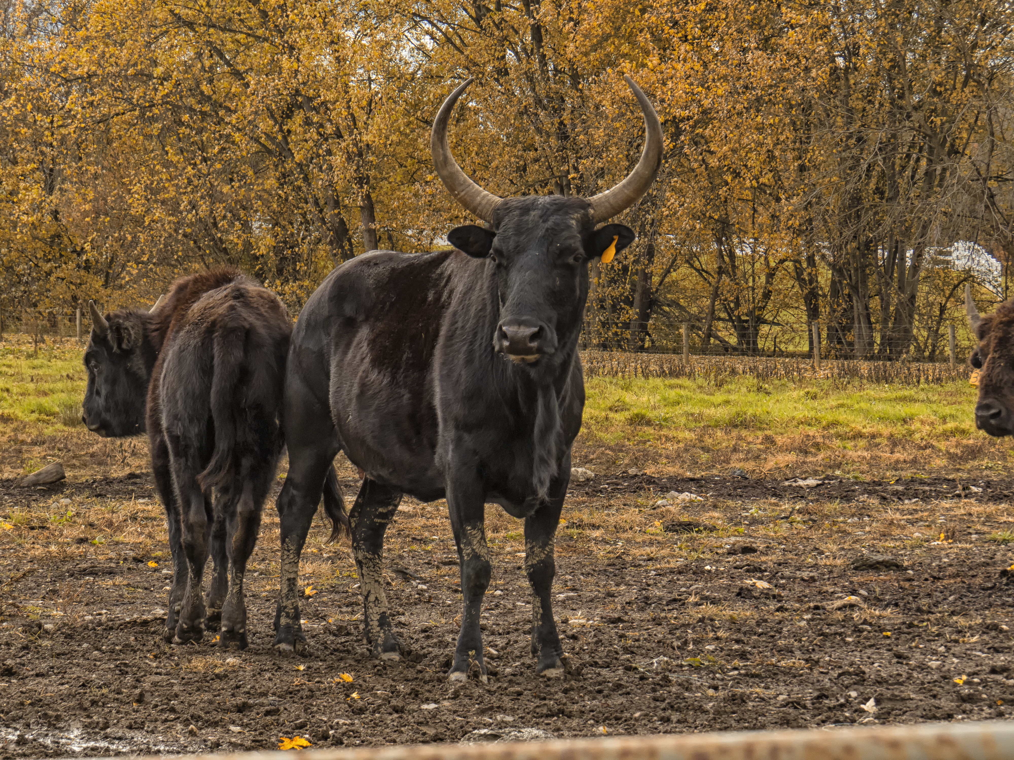 This is a half cow, half buffalo. Her 1/4 cow, 3/4 buffalo calf is 6 months old.